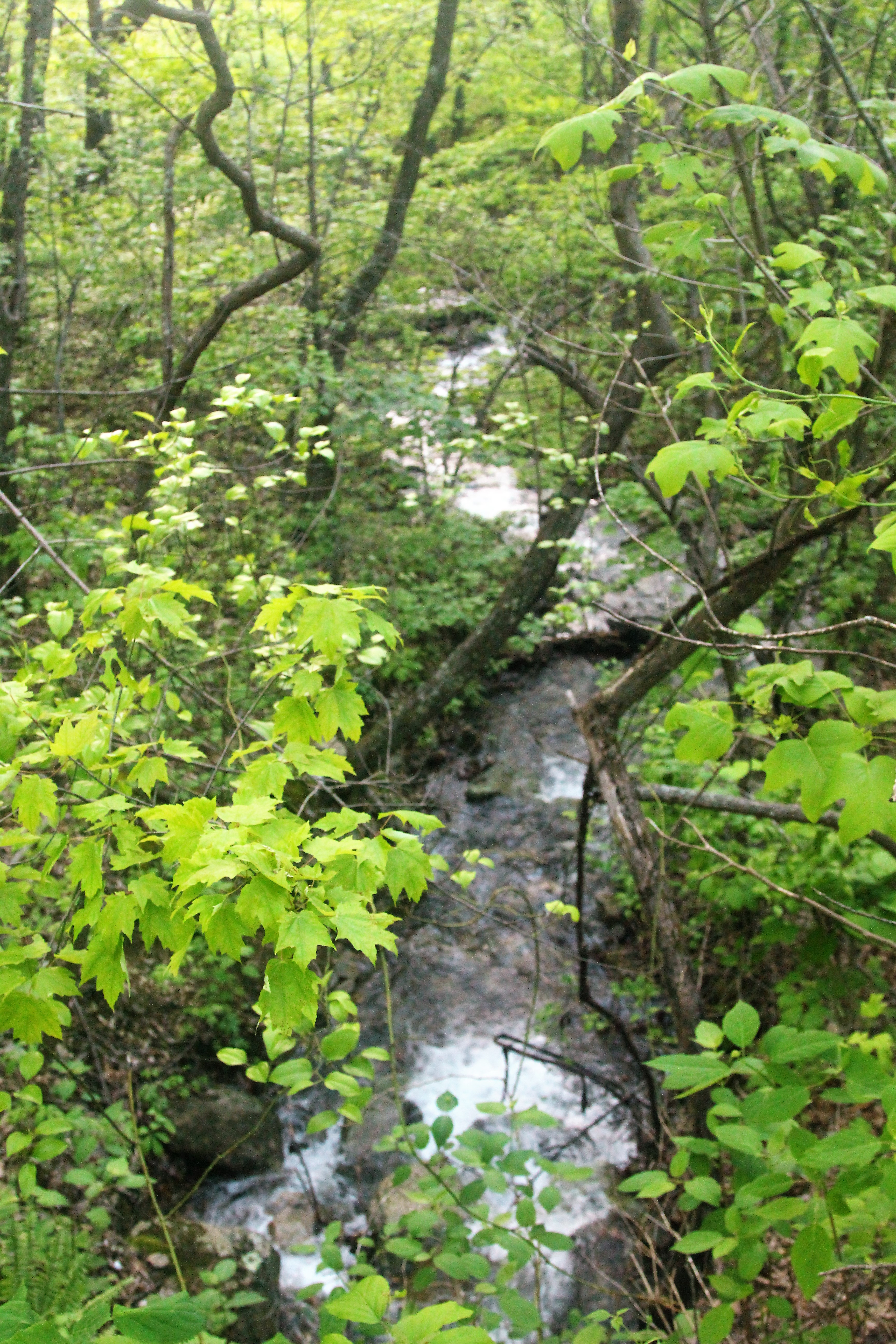 A small stream, Sulphur Spring, photographed in the Thunder Ridge Wilderness, Virginia